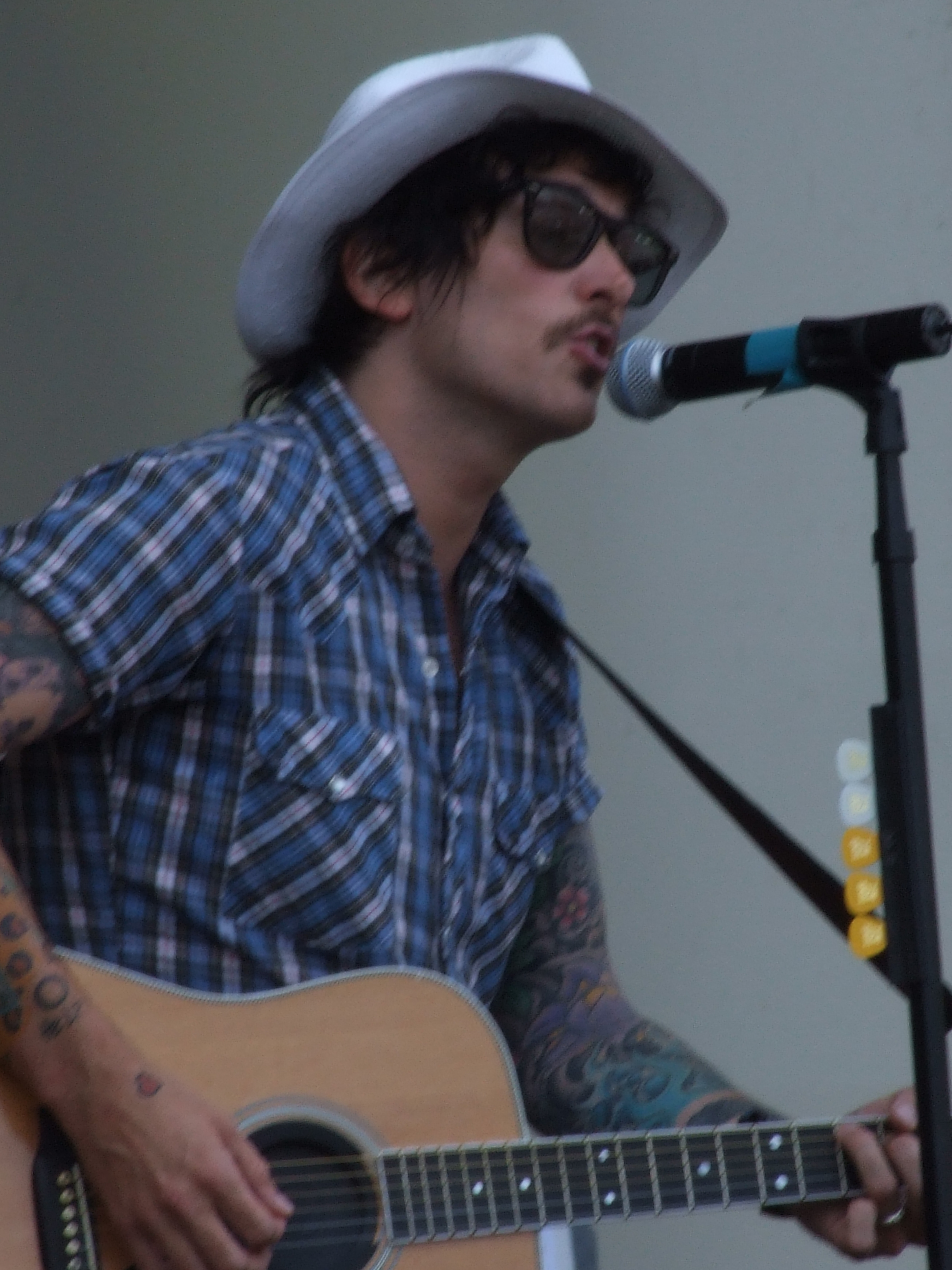 Butch Walker playing at Lollapalooza in Chicago in 2008.